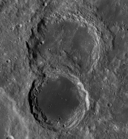 LRO-WAC ; Maxwell at upper half, dark floor Lomonosov protruding fom below (south)